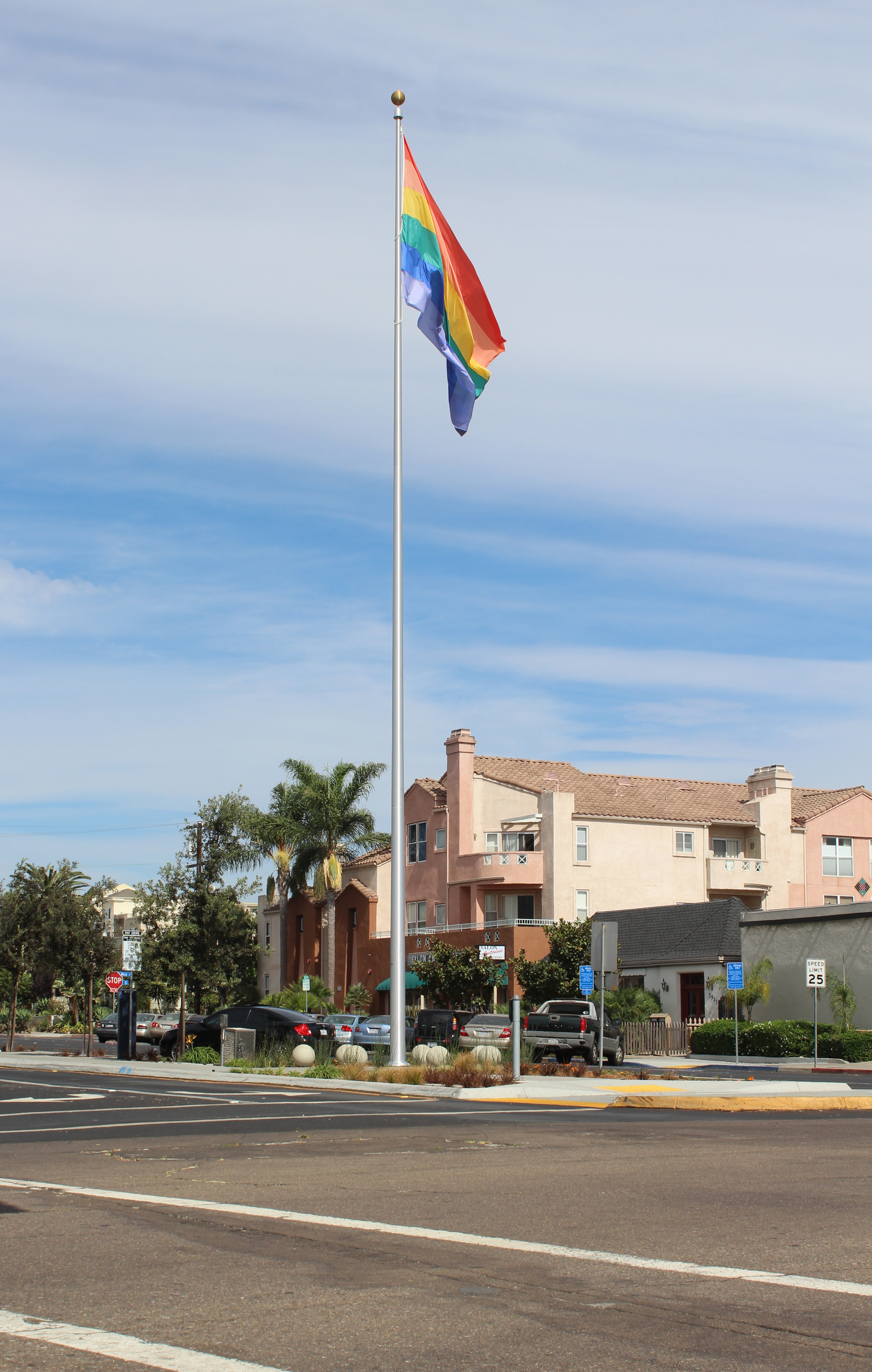 Hillcrest Pride Flag in San Diego, California.